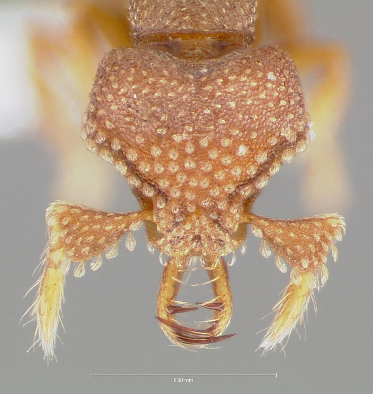 Head view of ant Strumigenys heliani specimen casent0005550.